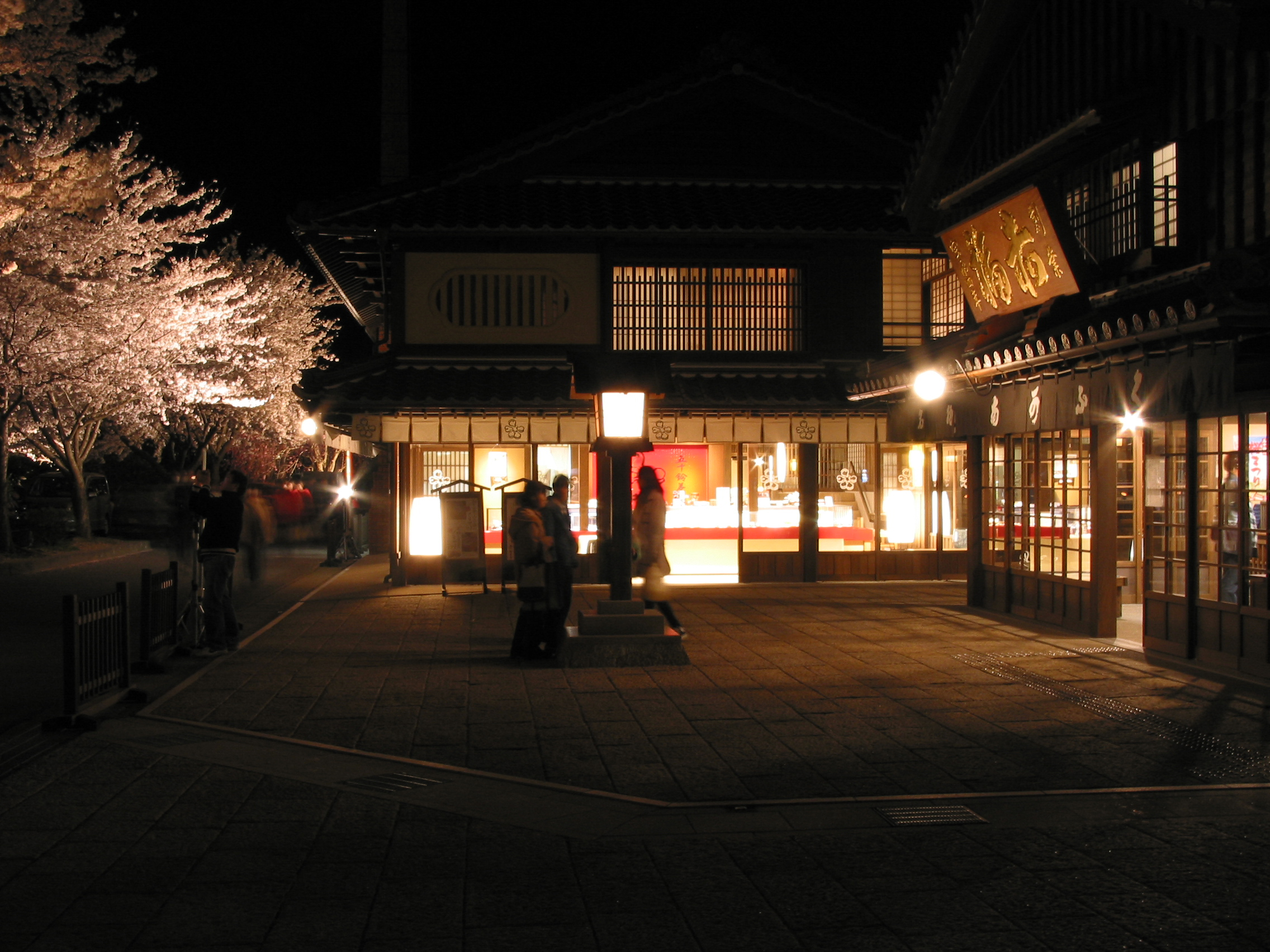 Cherry blossoms with Isuzugawa branch of Akafuku store (right) & Isuzugawa branch of Isuzu-Chaya store (center) at Night. 赤福五十鈴川支店（右）および五十鈴茶屋五十鈴川支店（中央）と夜桜（三重県伊勢市宇治浦田町で撮影）